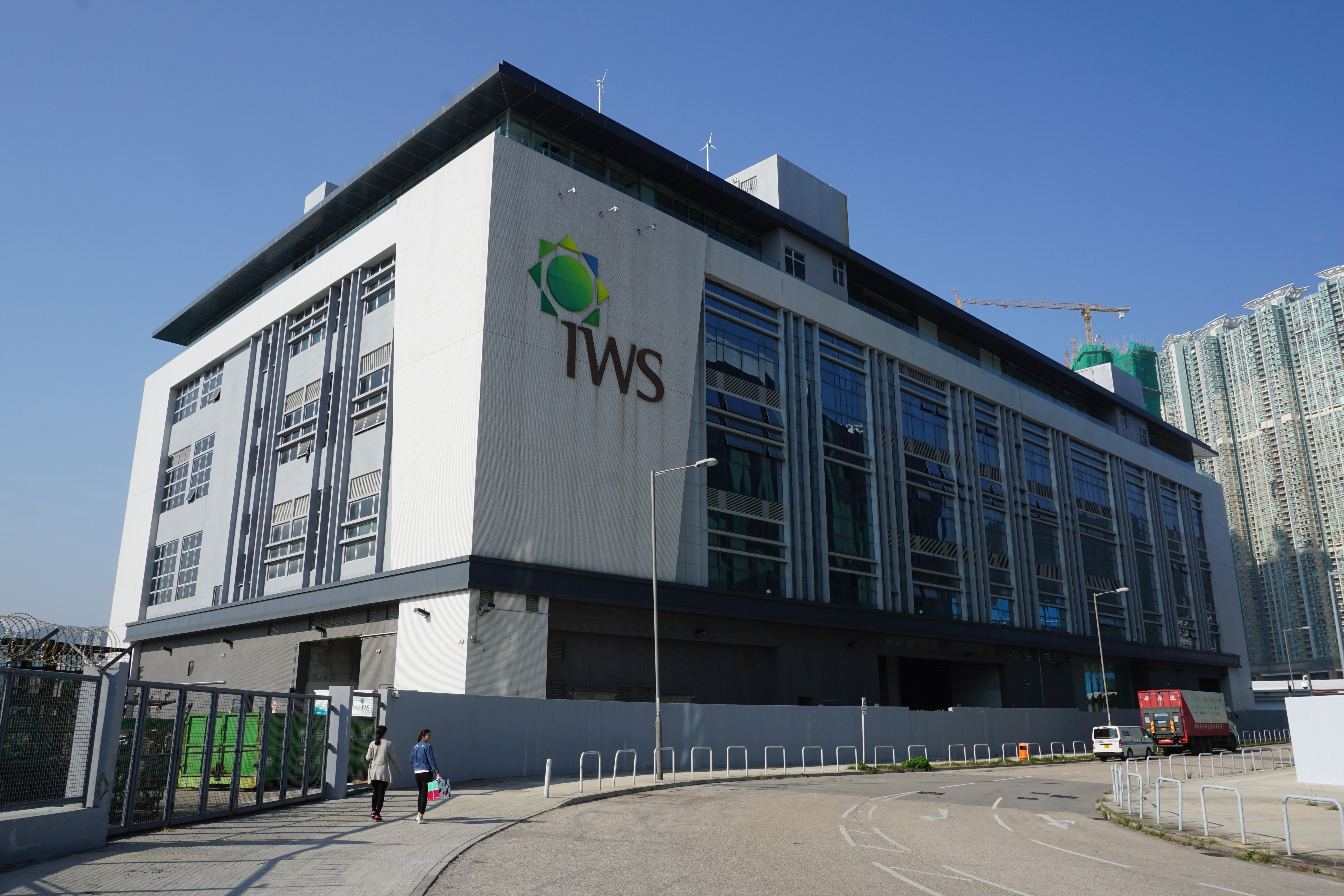 Integrated Waste Solutions Building in Tai Chik Sha, Hong Kong.